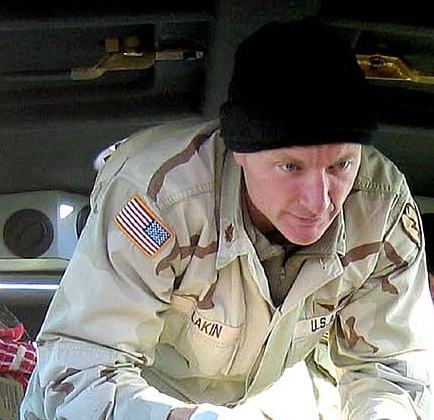 Dr. (Maj.) Terry Lakin, the flight surgeon for 3rd Squadron, 4th Cavalry Regiment, examines the partially amputated finger of an Afghan man who assists in collecting unexploded ordnance at Kandahar Airfield. Lakin was selected as the Army Medical Department's Flight Surgeon of the Year for 2004.